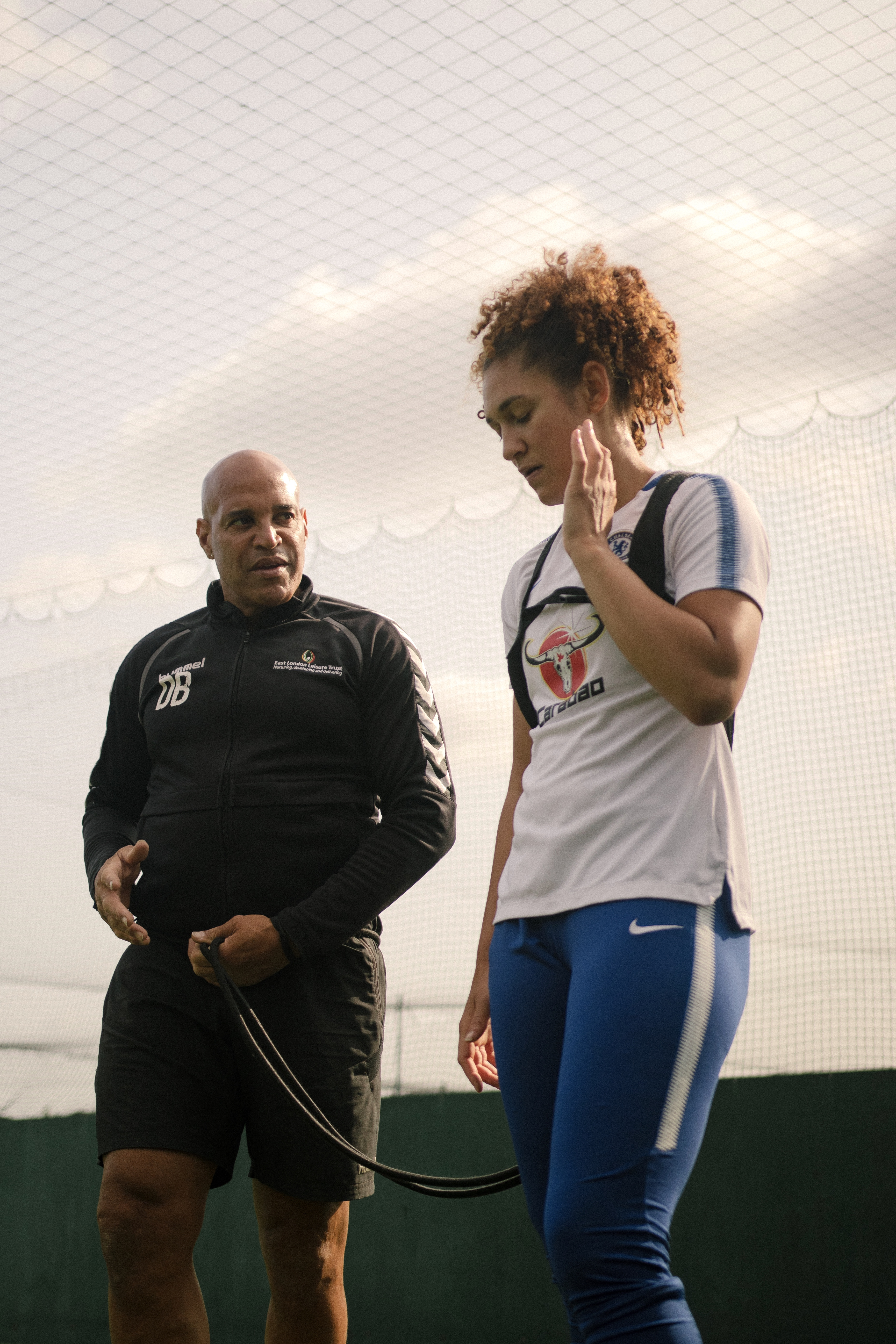 Danny Bailey coaching his niece and professional footballer Jade Bailey